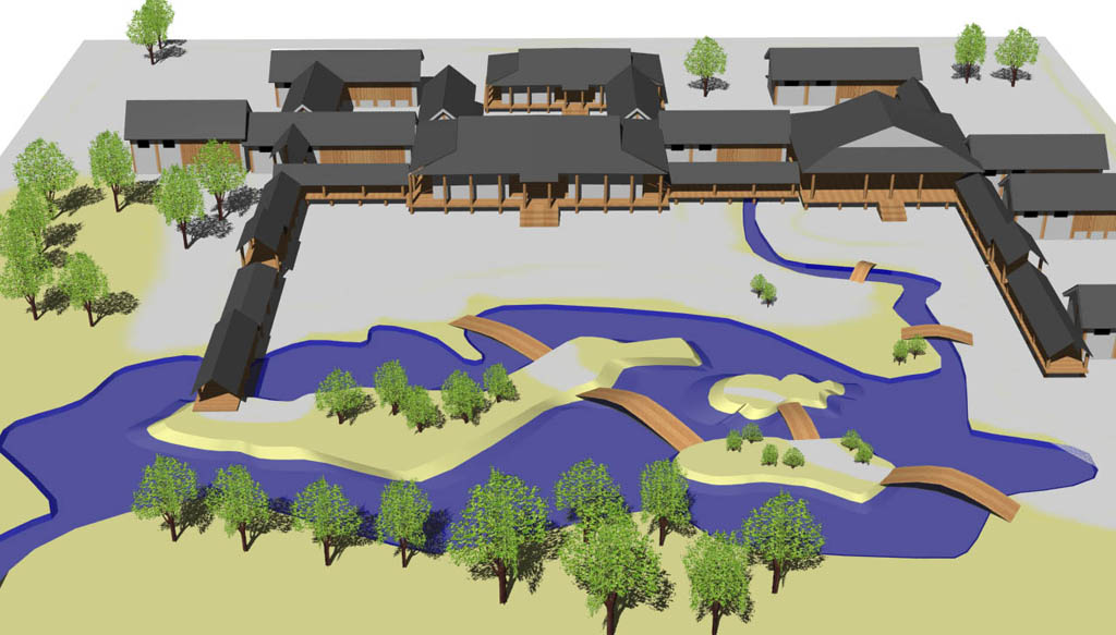 HigashiSanjoDono. Japanese Old Nobles' Residence in Heian era.